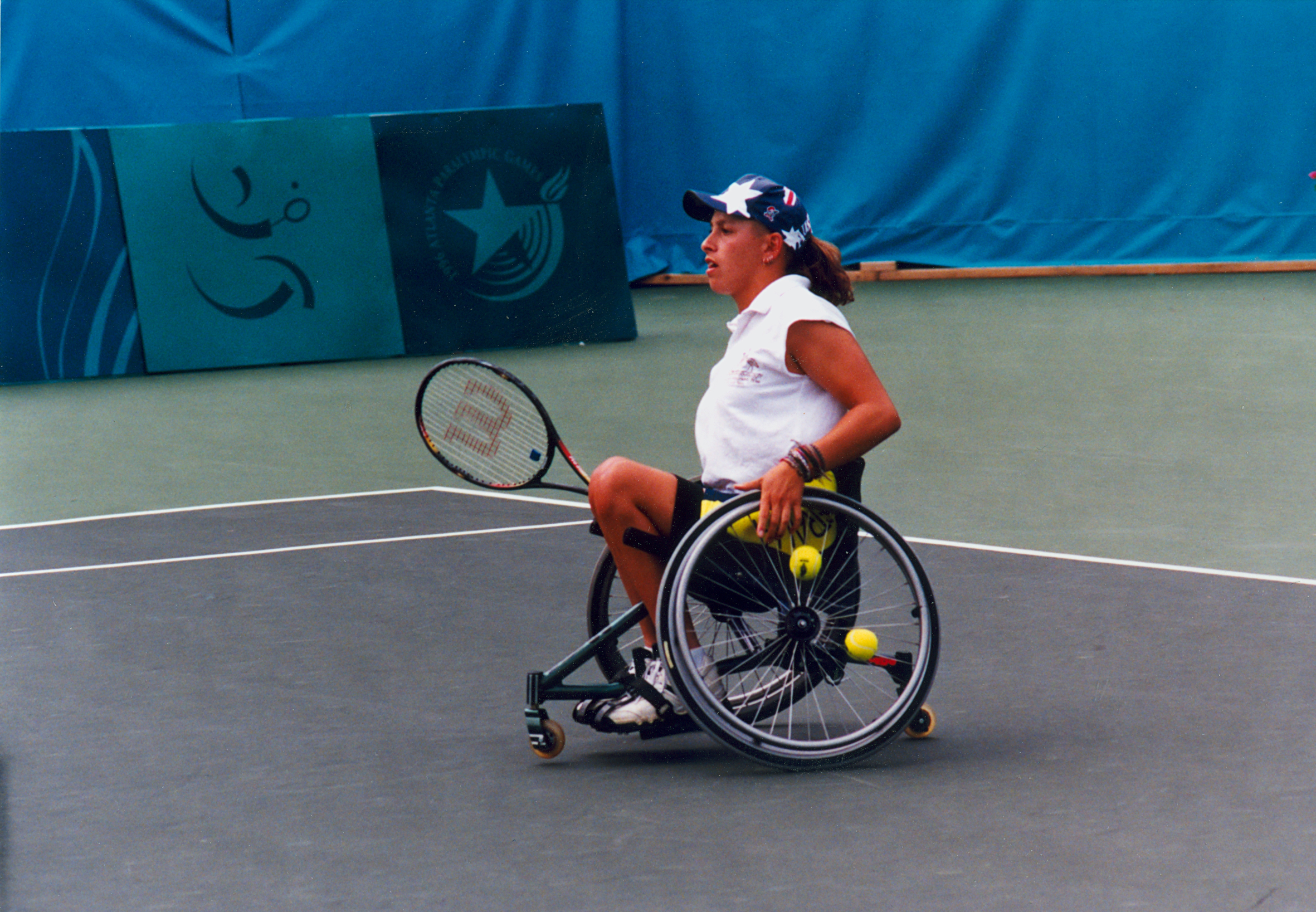 Australian wheelchair tennis player Daniela Di Toro competing in the 1996 Atlanta Paralympic Games